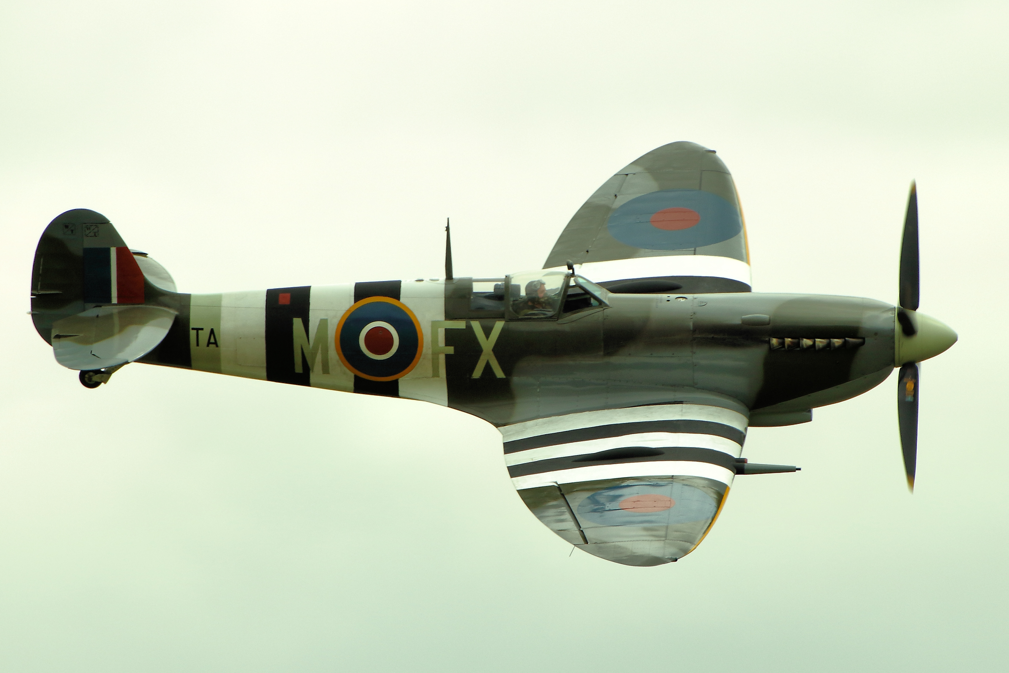 Spitfire - Duxford